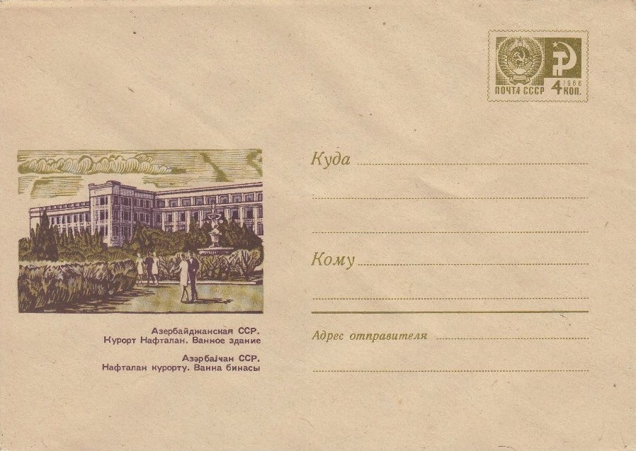 Baths Resort Naphtalan Azerbaijan on the USSR 1969 Mint Stationery Cover